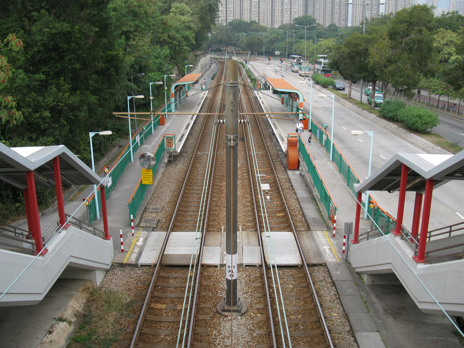 輕鐵 蝴蝶站 Butterfly Stop, Light Rail